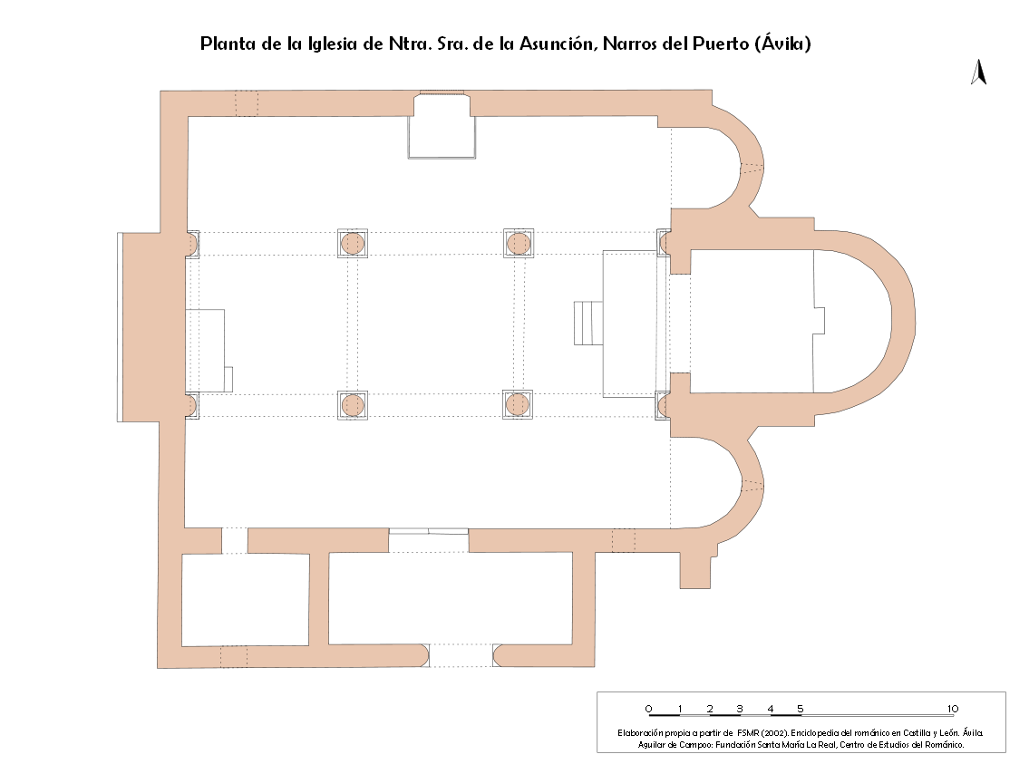 Ground plan of the Church of the Assumption of Our Lady in Narros del Puerto (Ávila, Spain)